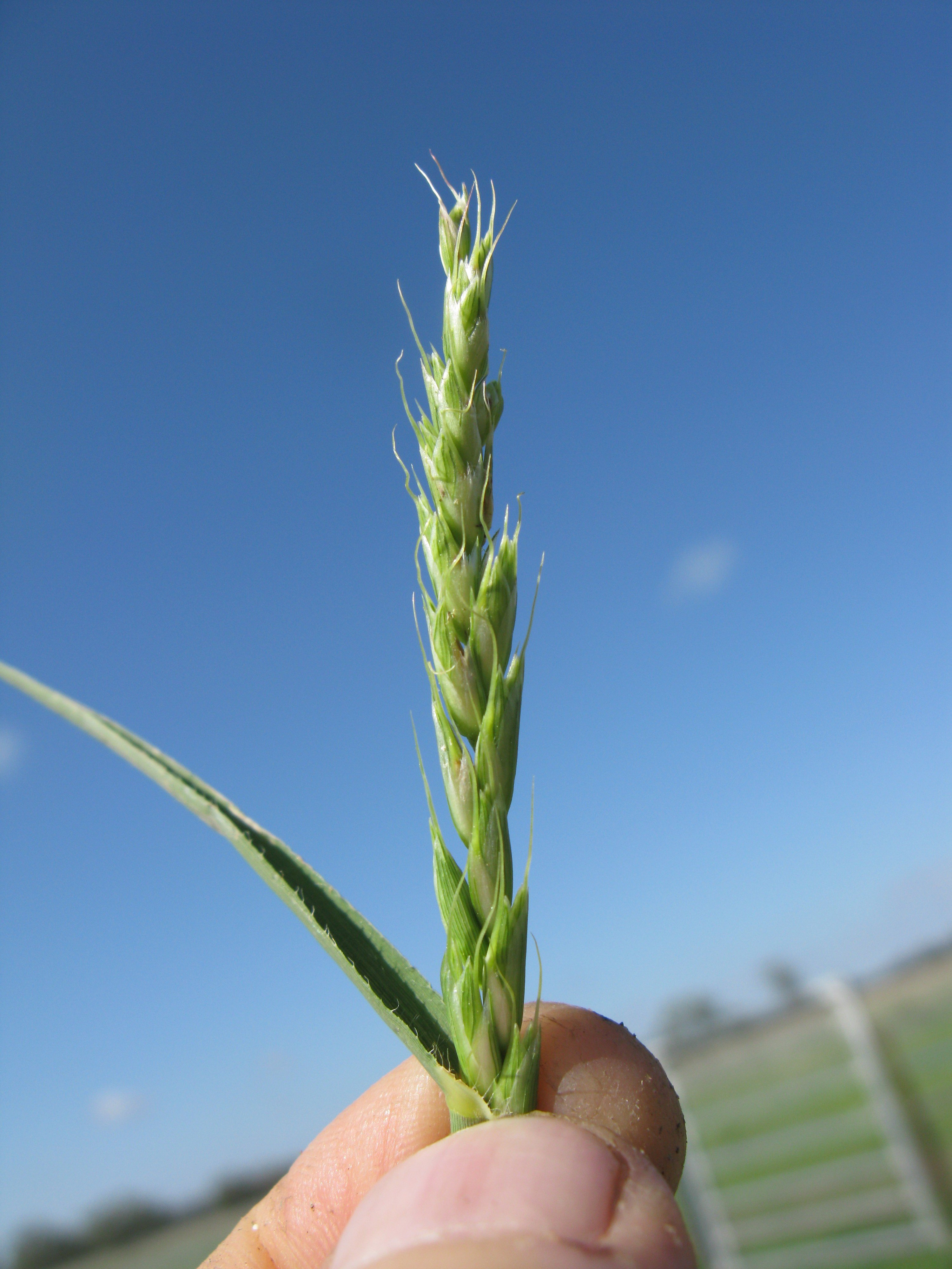 Flowerheads are spike-like, rigid, straight or sometimes curved, 5–30 cm long and bearing spikelets in 2 regular rows along 1 side. These are young heads just emerging from the leaf sheath.